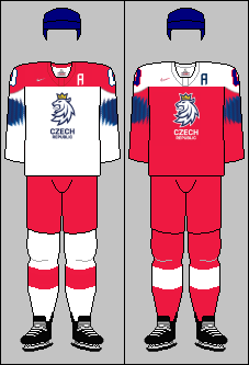 The home and away jerseys of the Czech Republic national ice hockey team used from the 2019 IIHF World Championship.